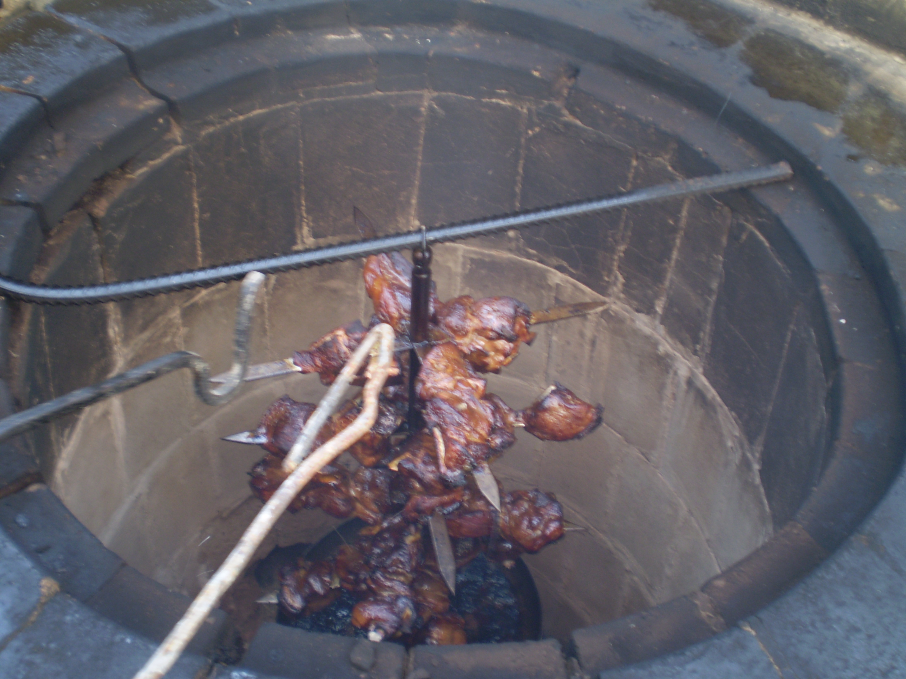 Lamb barbecued and smoked inside a tonir